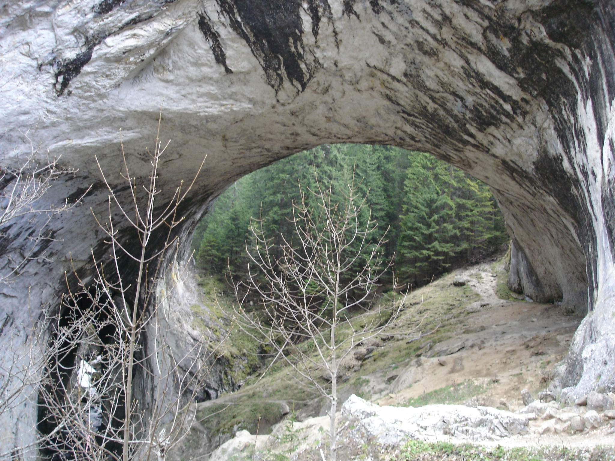 The wonderful bridges in the Rhodope mountain, Bulgaria